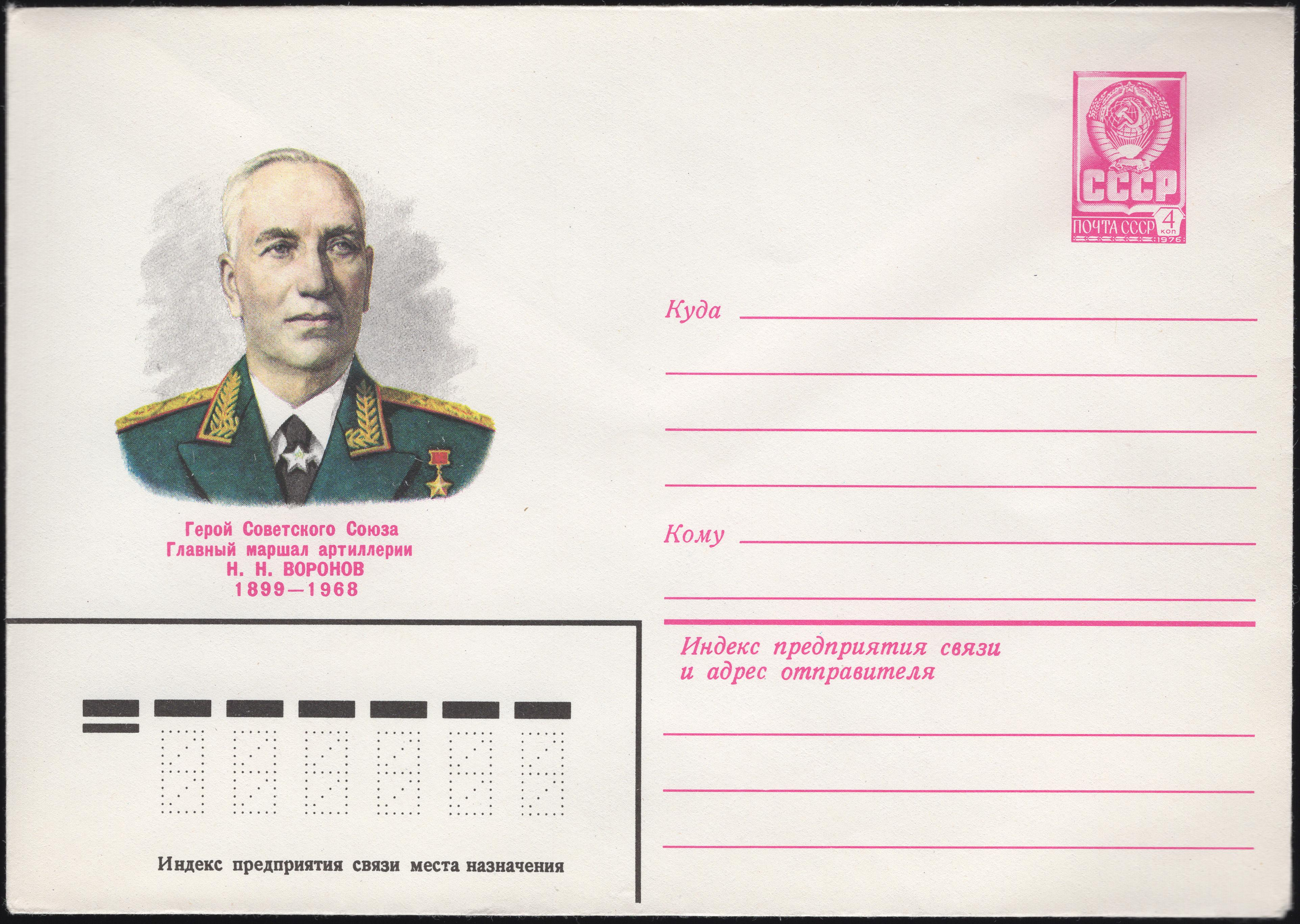 Hero of the Soviet Union Chief marshals of the artillery Nikolay Voronov. 1899-1968. Series: Heroes of the Soviet Union. Artist Ignatyev N.